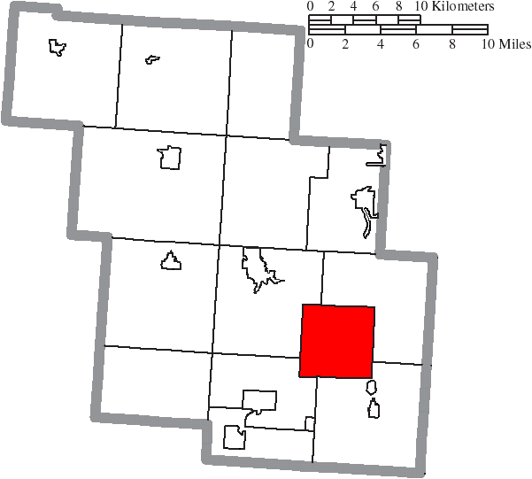 Map of the municipal and township boundaries of Perry County, Ohio, United States, as of the 2000 census, with the location of Pleasant Township highlighted. Township borders are shown only in unincorporated areas in order to differentiate incorporated and unincorporated areas more clearly.